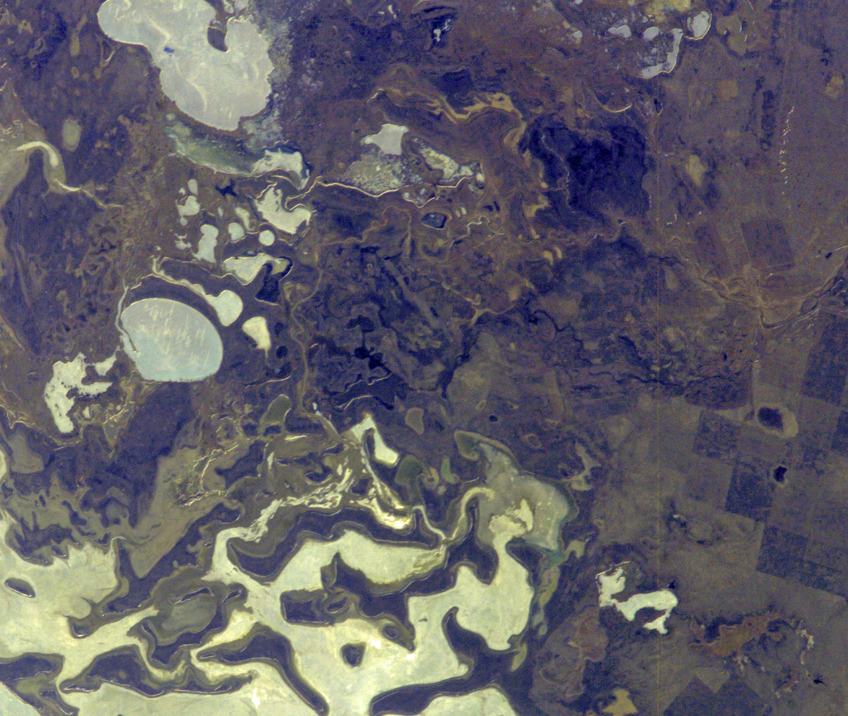 Mouth of the Nura River on Lake Tengiz, Kazakhstan